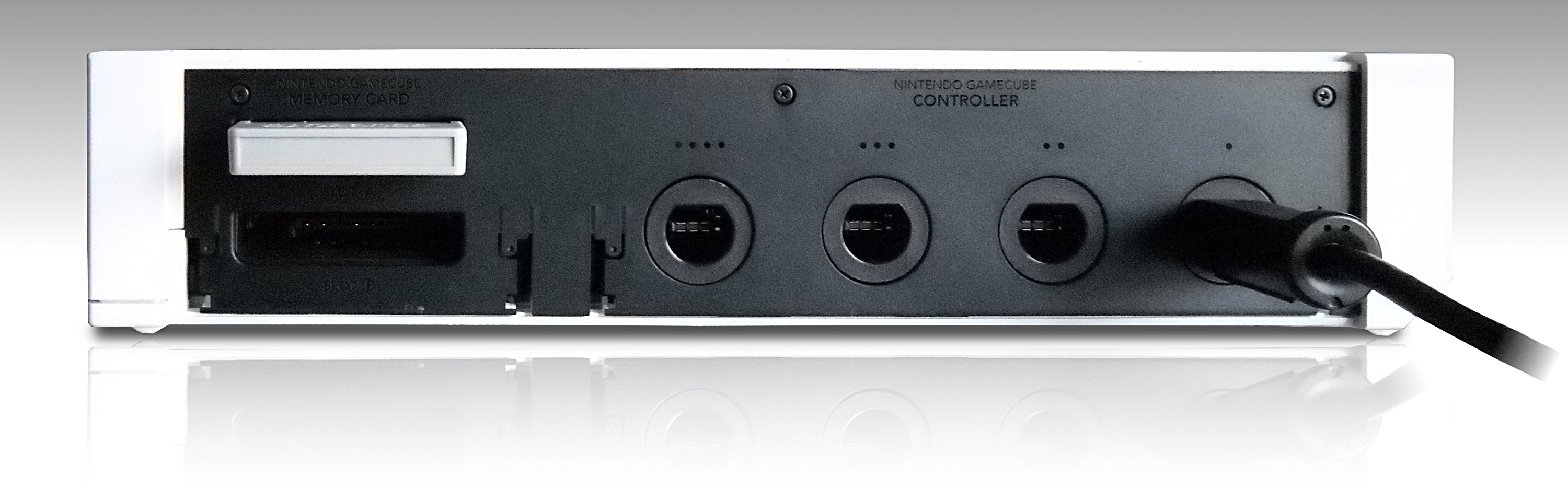 Nintendo GameCube (Game Cube) Memory Card and GameCube controller slots on Nintendo Wii